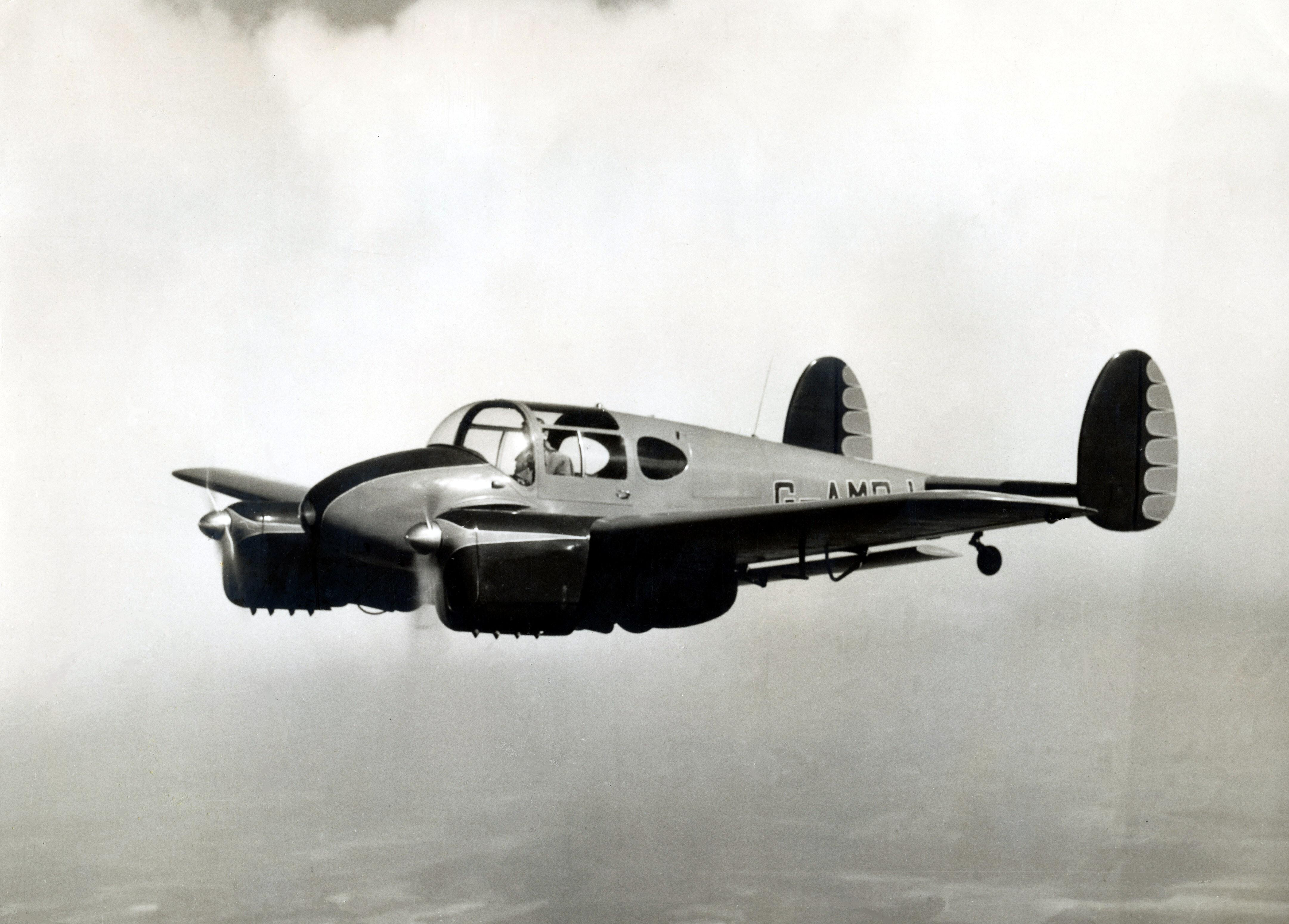 G-AMDJ Miles M-75 Aries c/n 75/1002 build 13-6-1952 to australia 5-1954 as VH-FAV